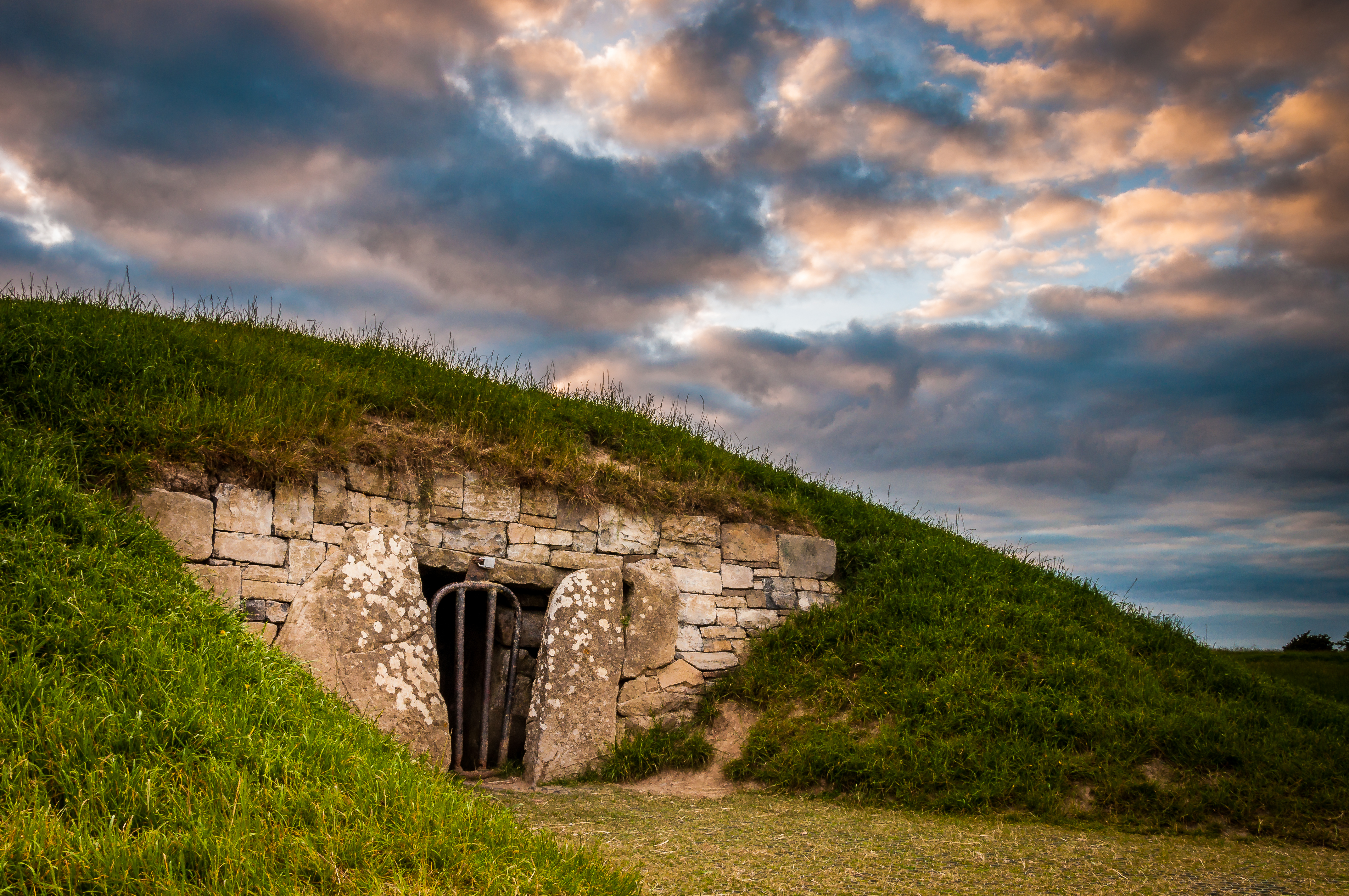 Hill of Tara